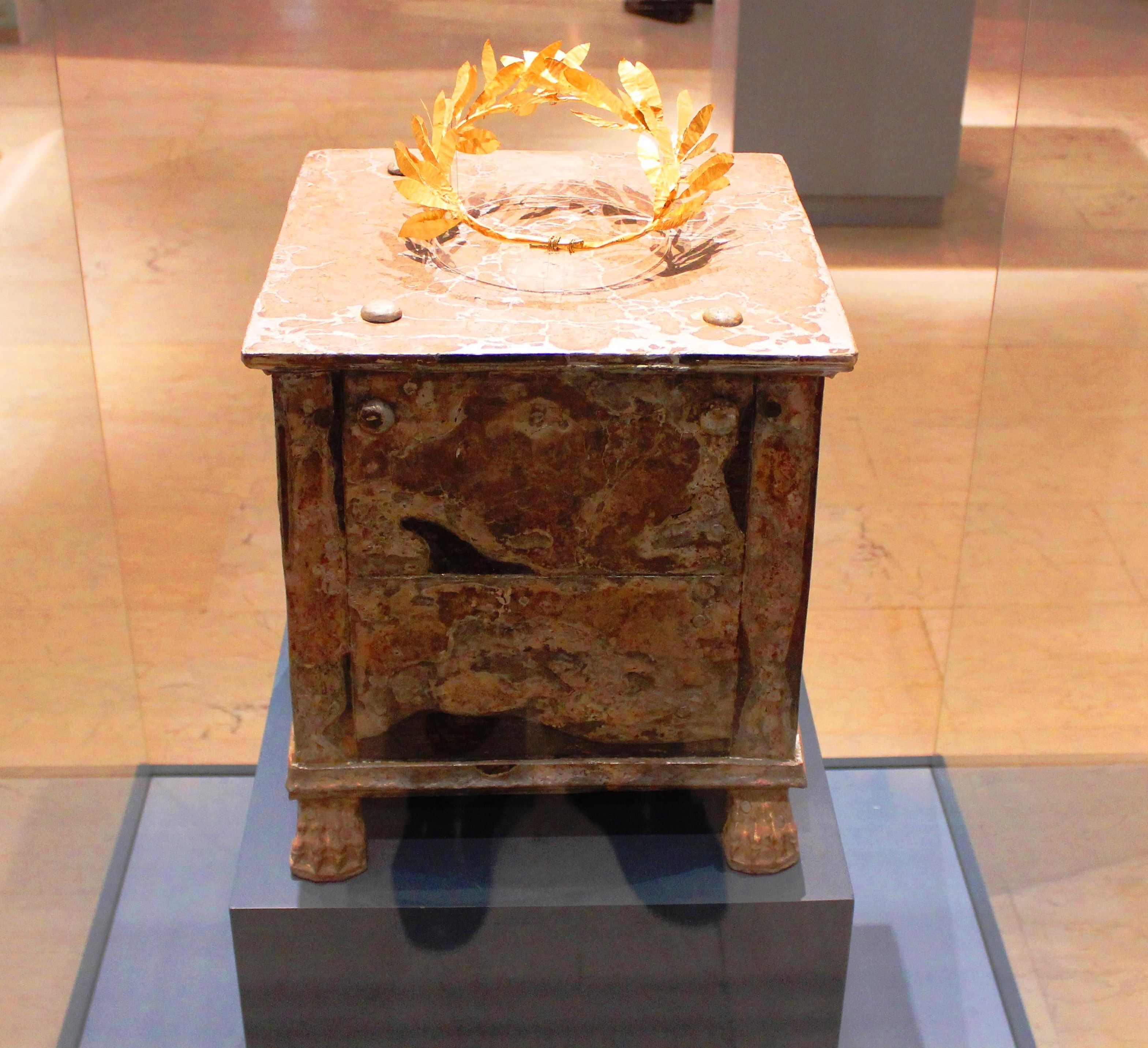 Officer Brasidas larnax